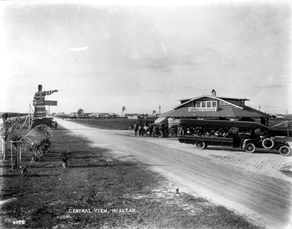 Local call number: Rc04667 Personal Author: Fishbaugh, W. A. (William A.) Title: [Looking down County Road, at the corner of 1st Street : Hialeah, Florida] [graphic] Publication info: 1921. Physical descrip: 1 photoprint b&w 8 x 10 in. Series Title: (Reference collection) General Note: On the left is the Hialeah welcome sign, depicting Seminole Indian Jack Tigertail in traditional dress. The building on the right is apparently the welcome station/real estate development office for Hialeah. A Hialeah developers' omnibus is turning onto 1st Street. At extreme left is the Miami Canal.